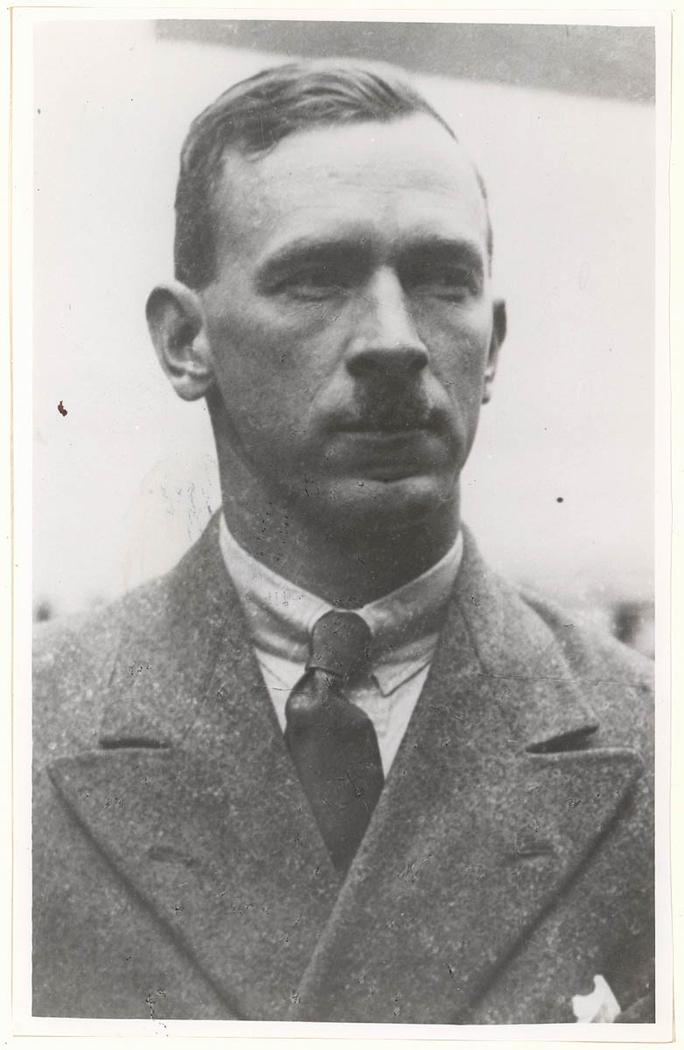 A scanned copy photograph of author and political activist P. R. Stephensen in Sydney, Australia, circa 1934. The photograph was presented to the State Library of New South Wales by Stephensen himself in December 1961. The photograph's dimensions are 14 x 9 cm, printed via the silver gelatin process of black-and-white photography.